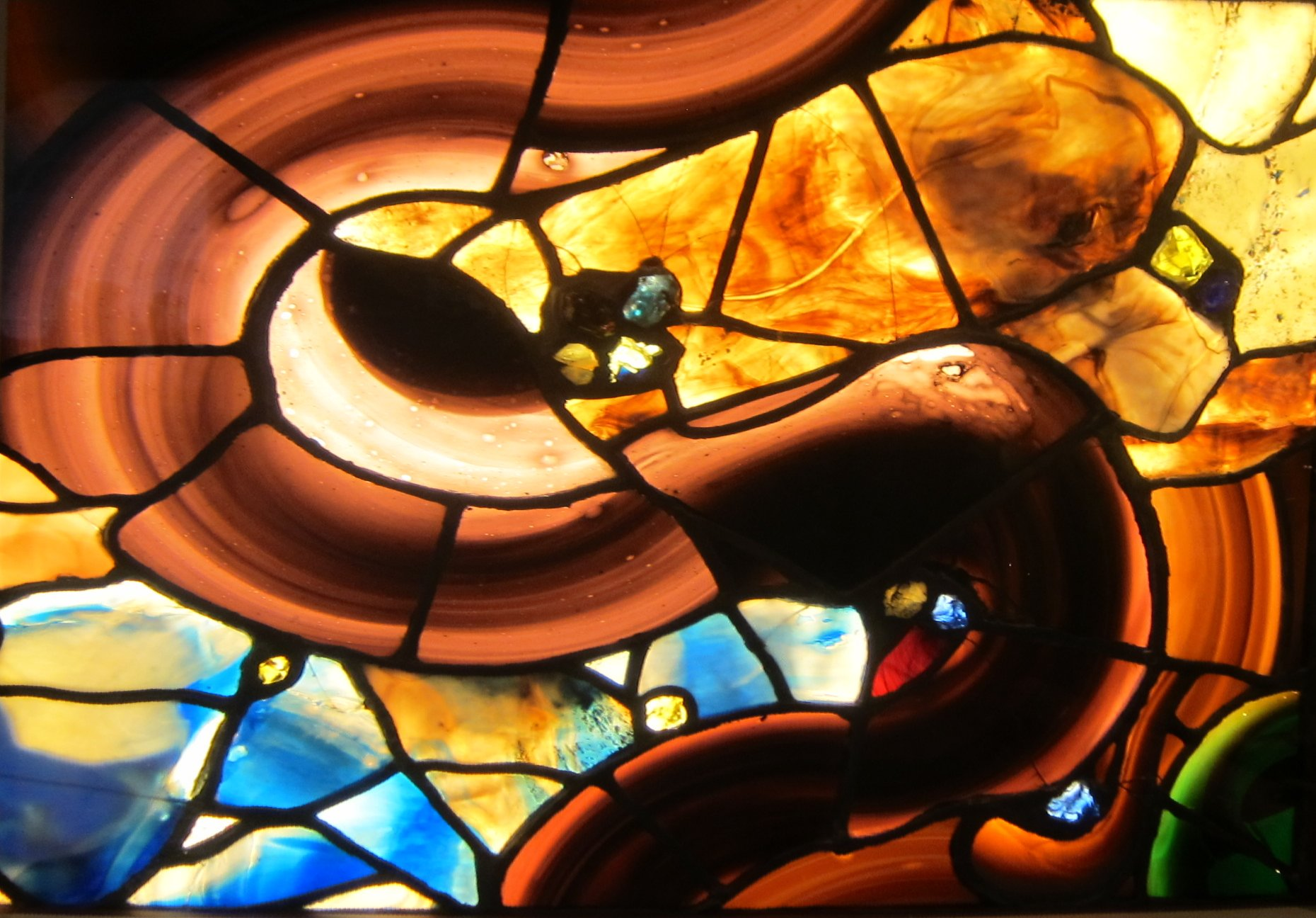 Bella apartment window by Louis Comfort Tiffany, c. 1880, leaded glass, 24 1/4 x 29 1/2 in. (61.6 x 74.9 cm), Metropolitan Museum of Art, accession 2002.474